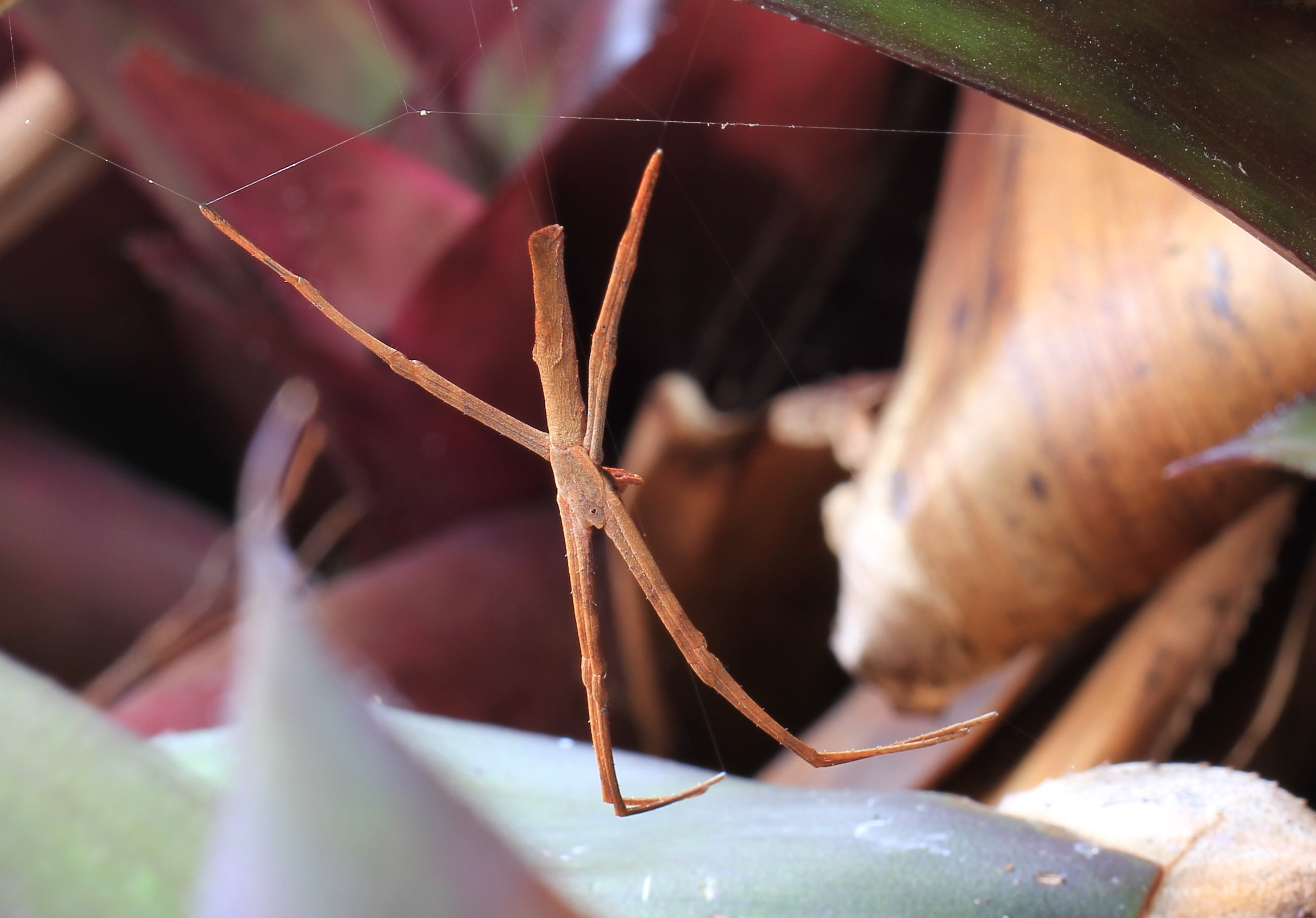 A female Deinopis subrufa, Rufous Net-casting spider, taken in the Royal Botanic Gardens, Sydney, New South Wales, Australia. (Identification was made from: Australian Museum: Rufous-Net-casting-Spider )